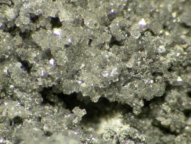 Arsenolite Locality: Annaberg-Buchholz, Erzgebirge, Saxony, Germany (Locality at ) Colourless xls of Arsenolite. Field of view 4 mm. Specimen and photo Leon Hupperichs.